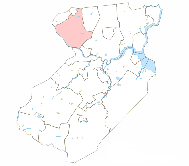 Description:Map of Piscataway Township in Middlesex County, New Jersey Source: User:Schzmo (own work, Dec. 2006) Adapted from Image:Middlesex County, New Jersey Municipalities.png by Jim Irwin